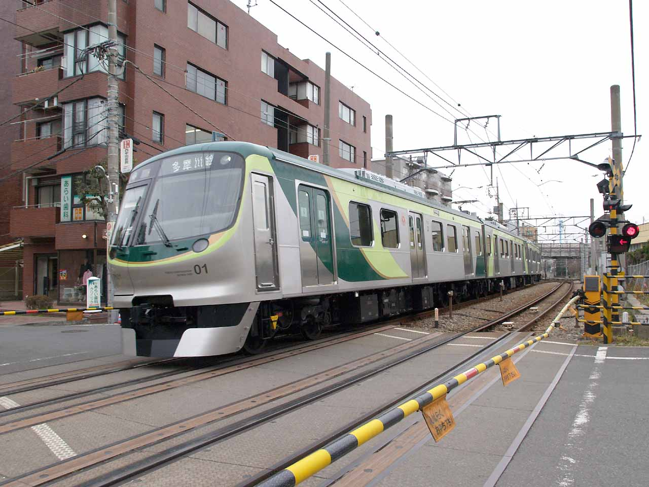 Tokyu 7000 series EMU set 7101 near Tamagawa Station on the Tokyu Tamagawa Line in Ota ward, Tokyo, Japan